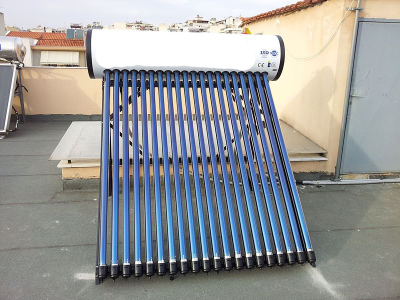 Evacuated tube solar thermal collector in Thessaloniki, Greece